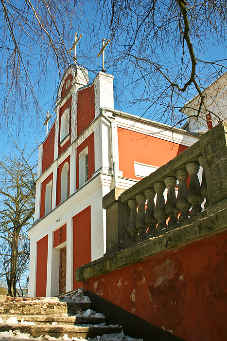 Dominican monastery